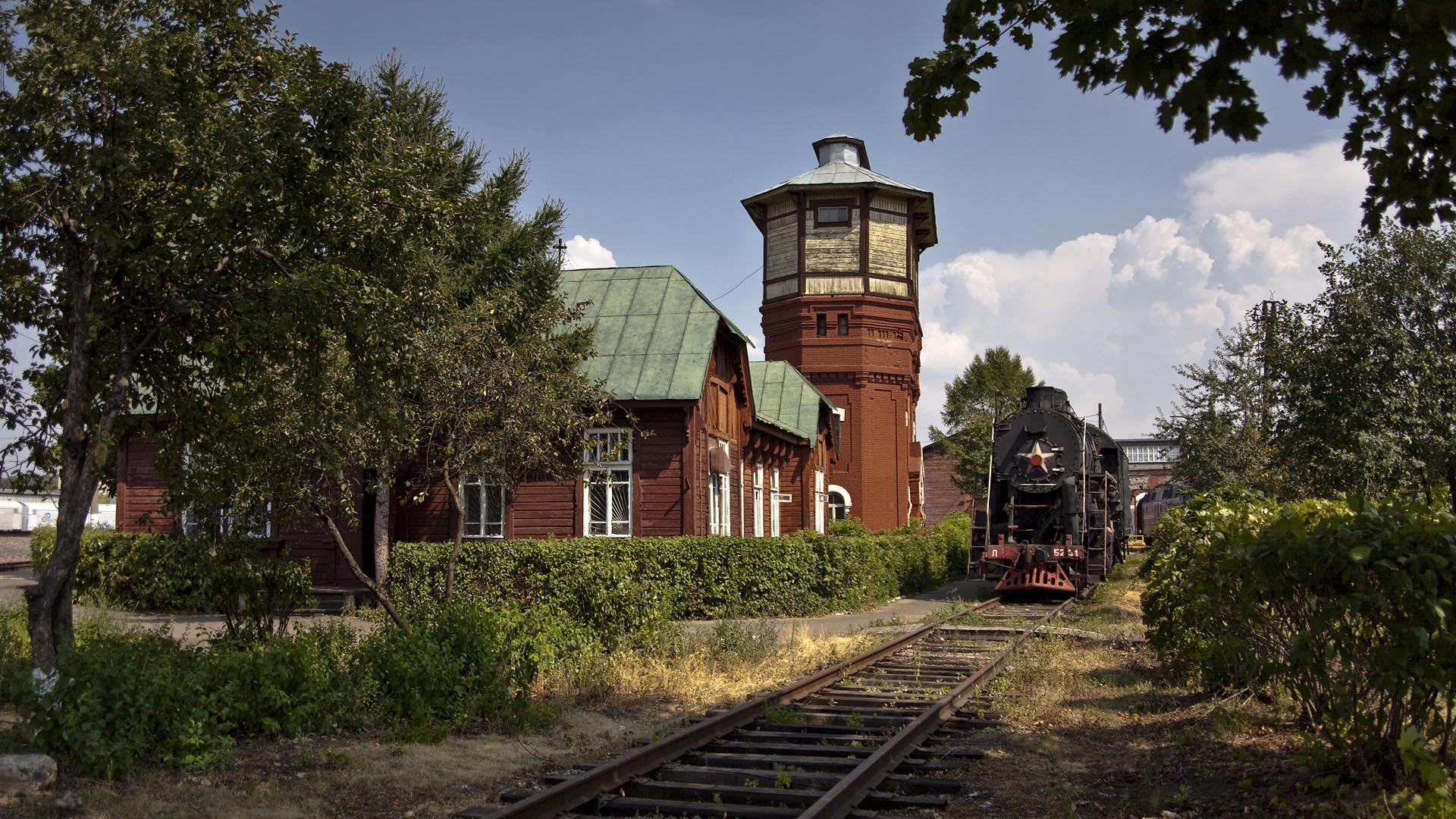 Moscow old train stantion "Podmoskovnaya"